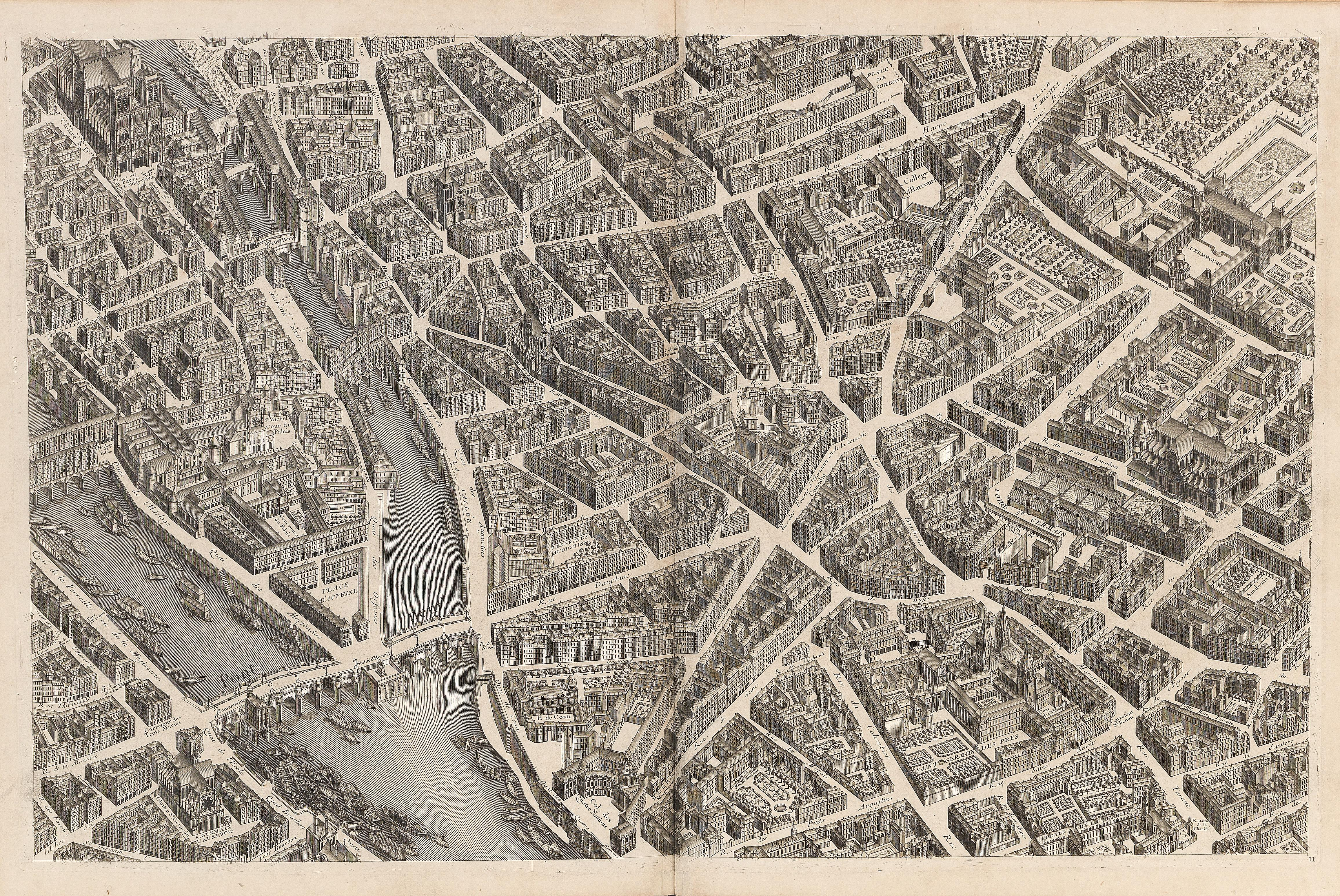 Plate 11 of the Turgot map of Paris